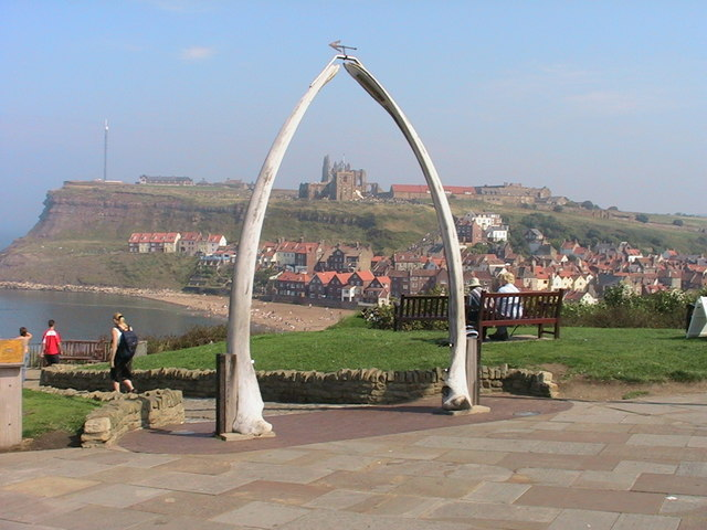 Whitby Abbey through the Whale Bones Whitby Abbey through the Whale Bones